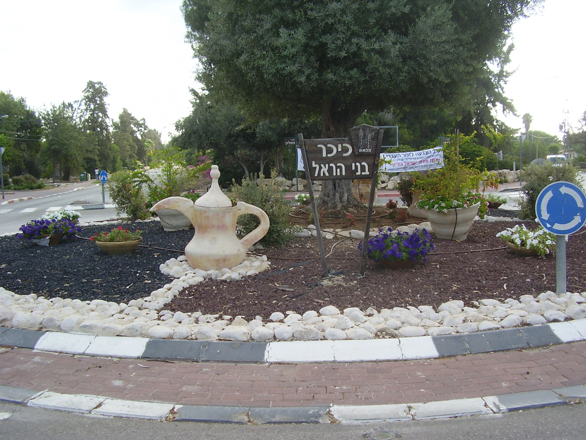 Entrance square to Kfar Truman